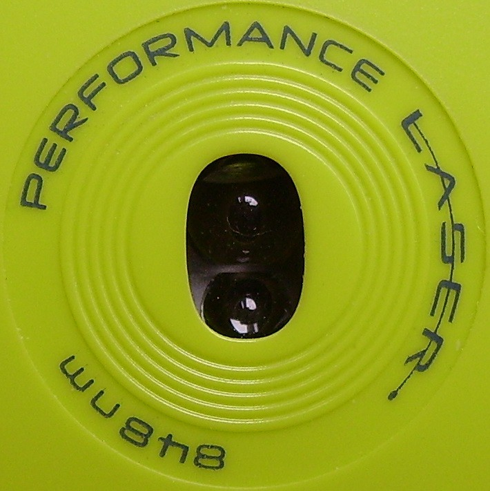 Logitech LS1 Laser mouse (corded, year 2009). Class 1 Laser Product. Laser wavelength: 848 nm (underside).